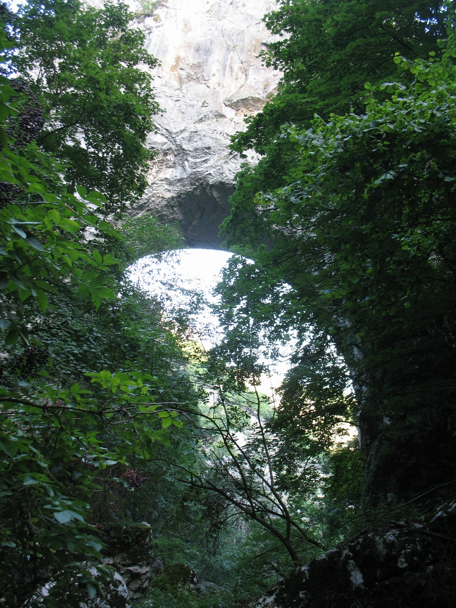 Mala Prerast (Small stone bridge) on Vratna river on Veliki Greben mountain, Serbia.